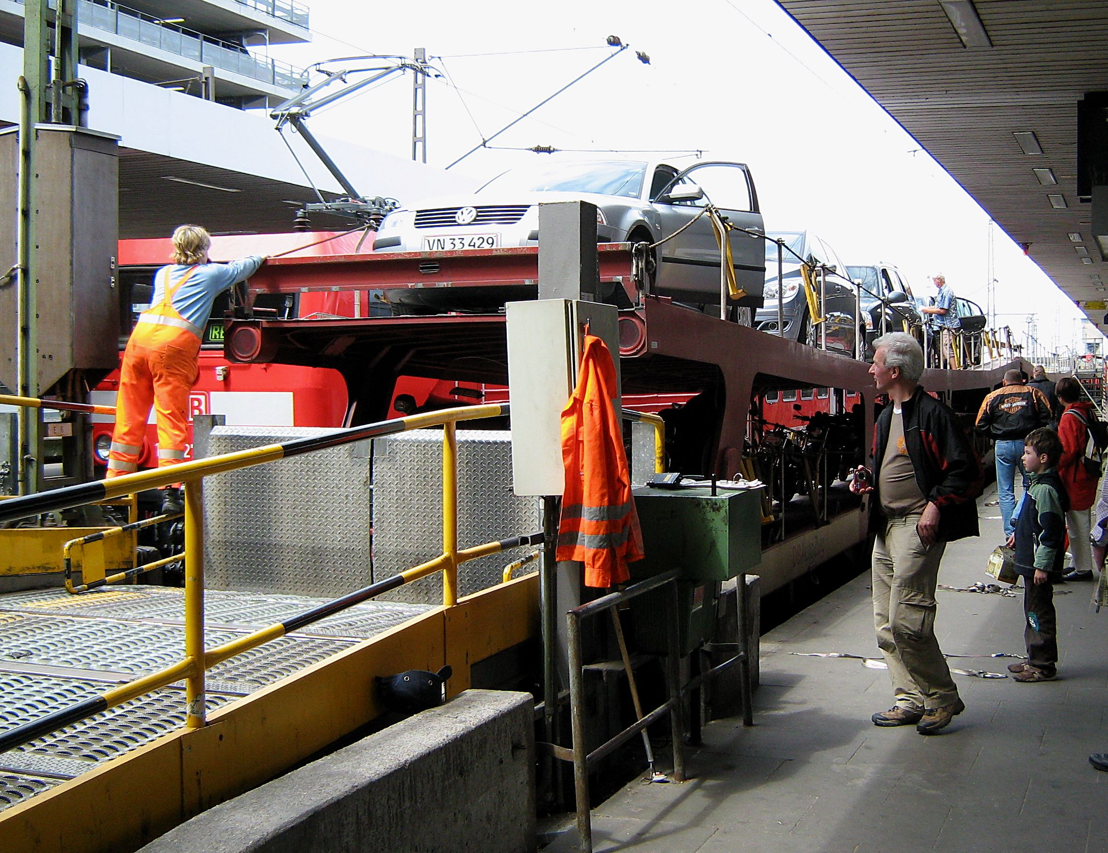 The german autotrain on the station af Altona, Hamburg. June 2008